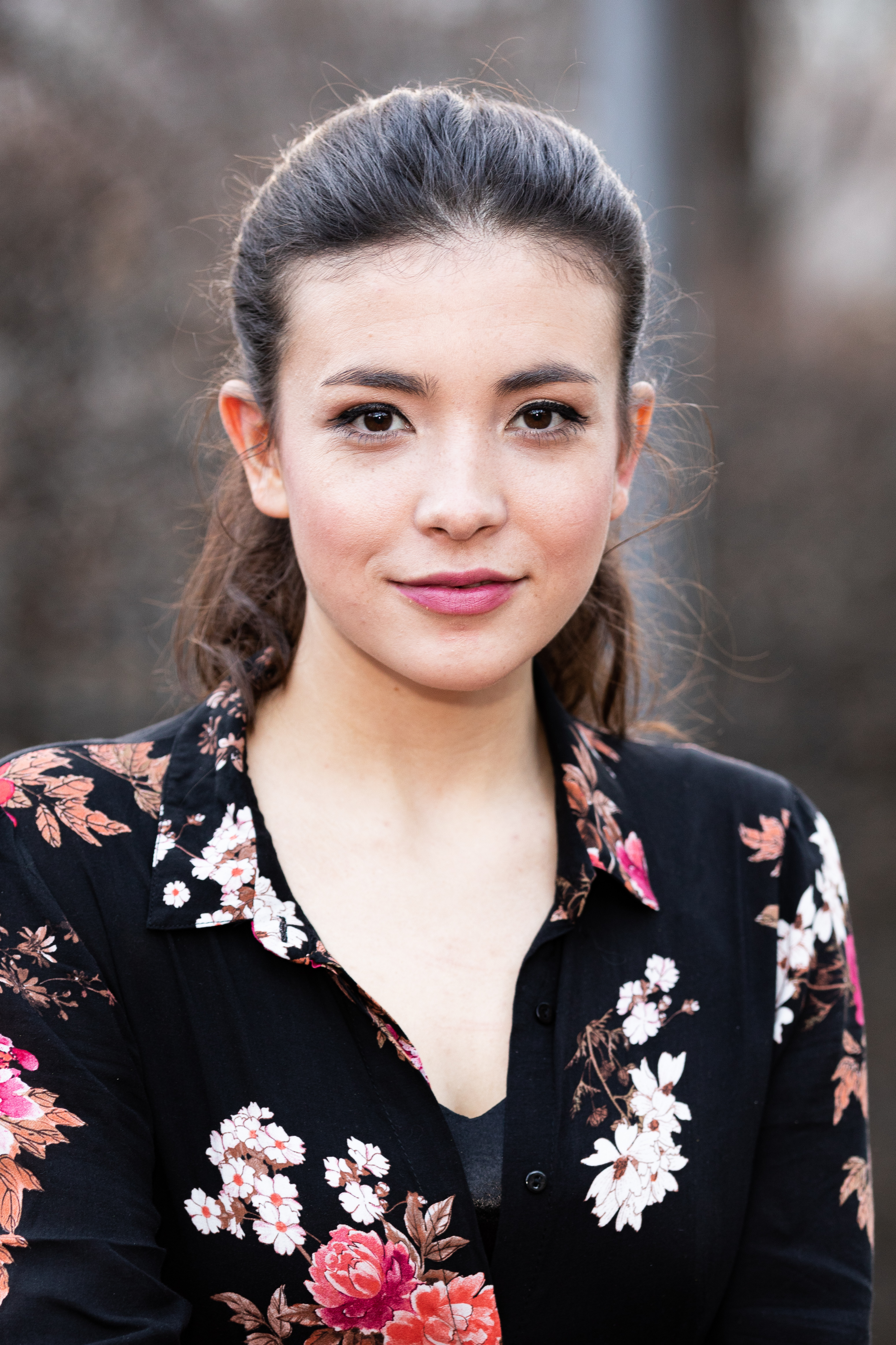 Helen Woigk at the Hessian reception during the Berlinale 2019